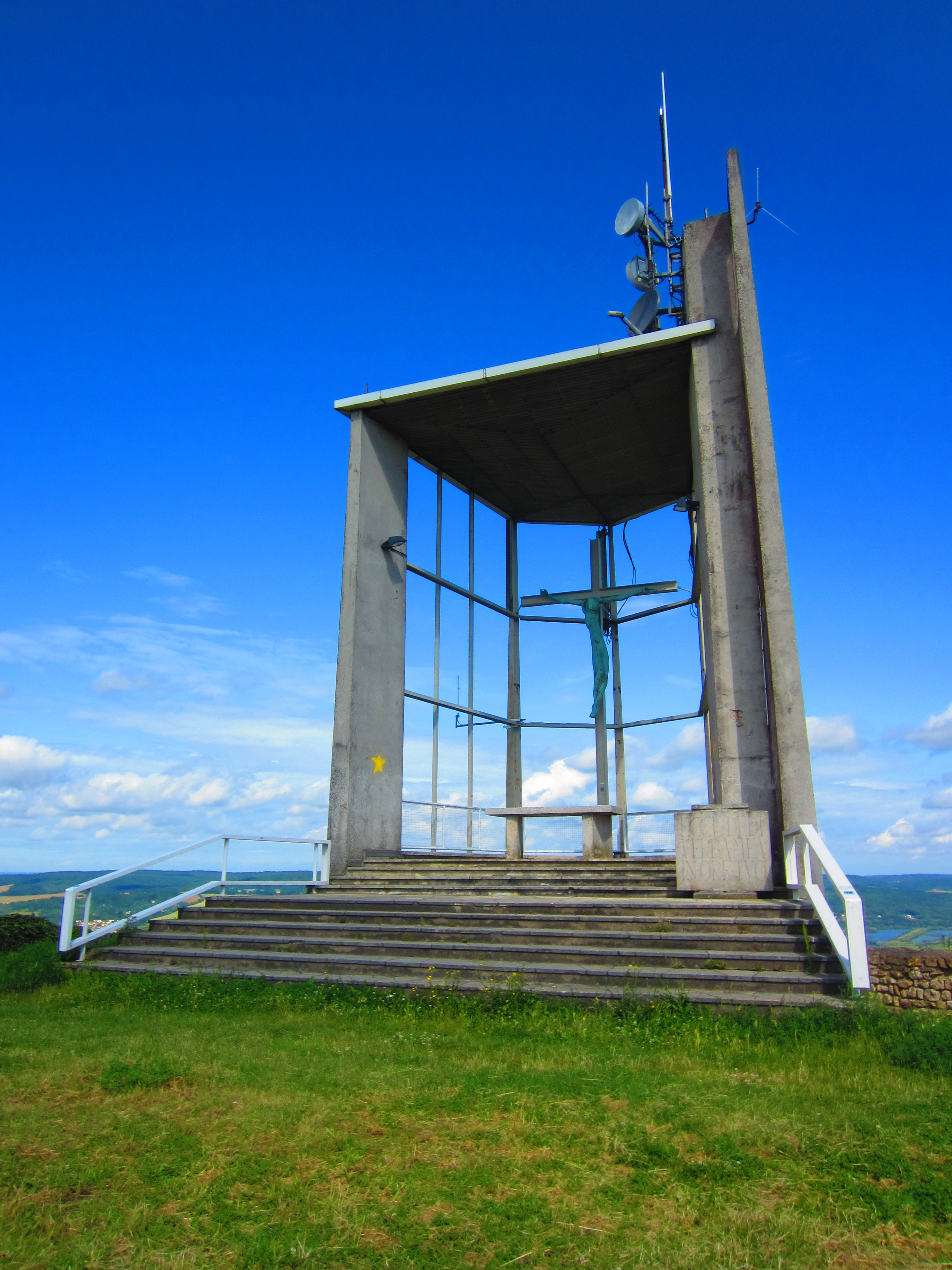 Mousson light chapel